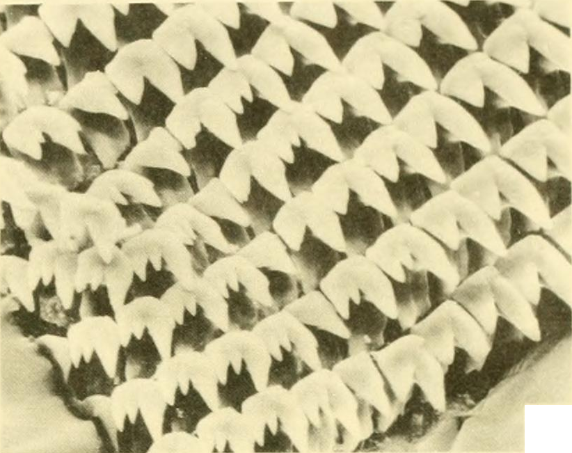 SEM black and white photo of lateral and marginal teeth of radula of Novisuccinea chittenangoensis. FMNH 175425. Magnification 435×.